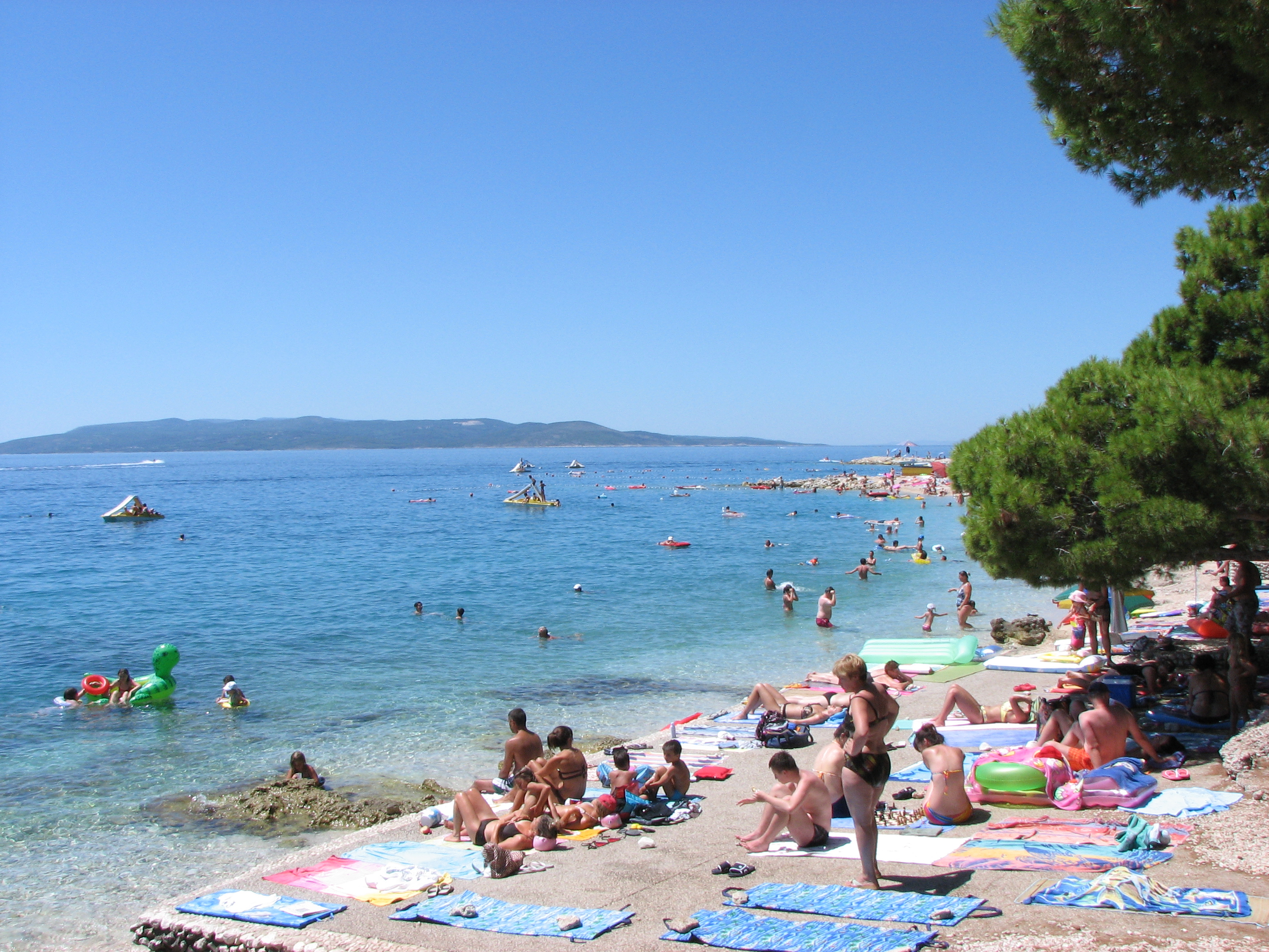 Beach of Makarska town in Croatia.